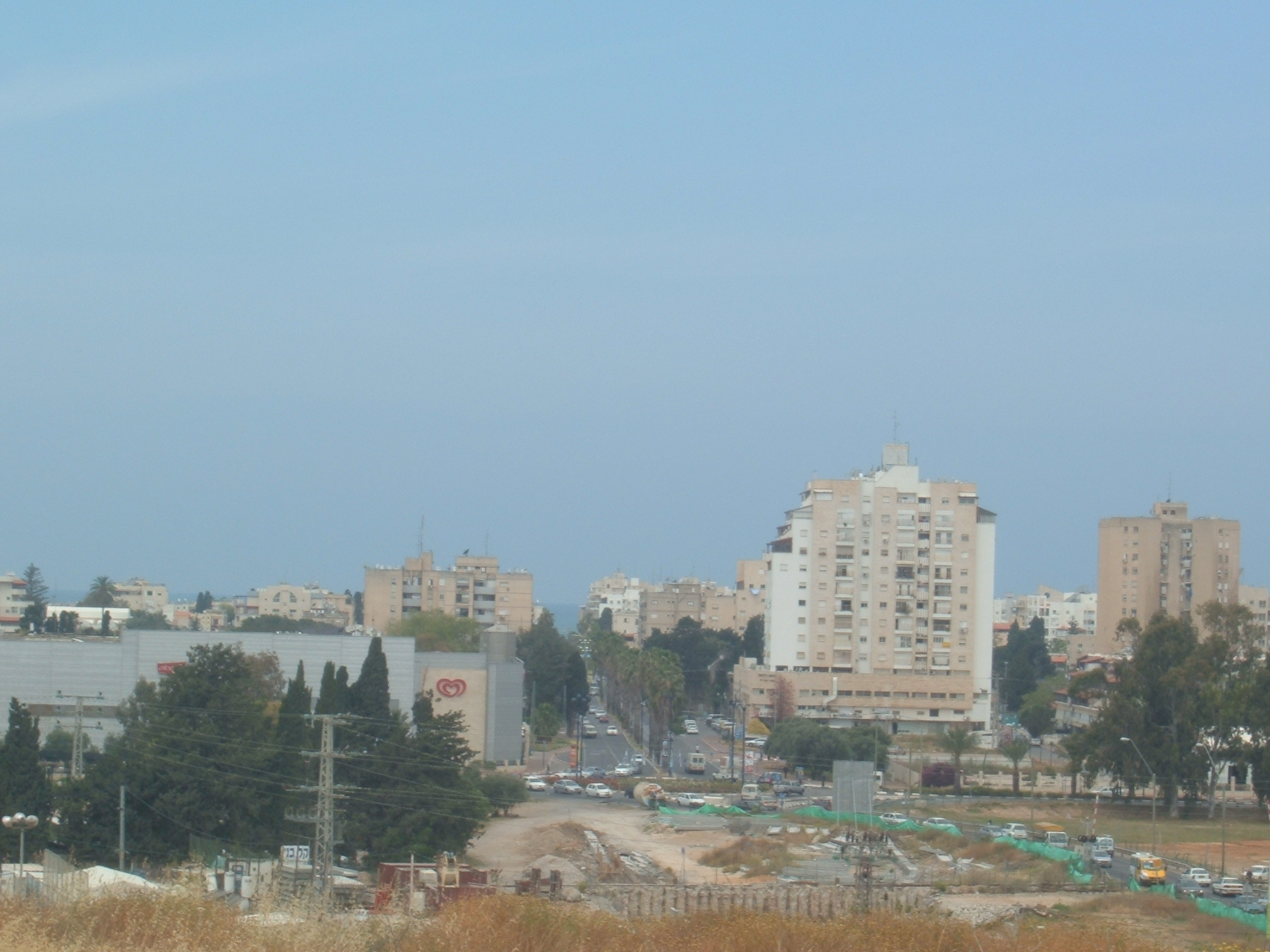 benami st. in acre as viewed from napoleon's hill רח' בן עמי בעכו כפי שהוא נראה מתל עכו